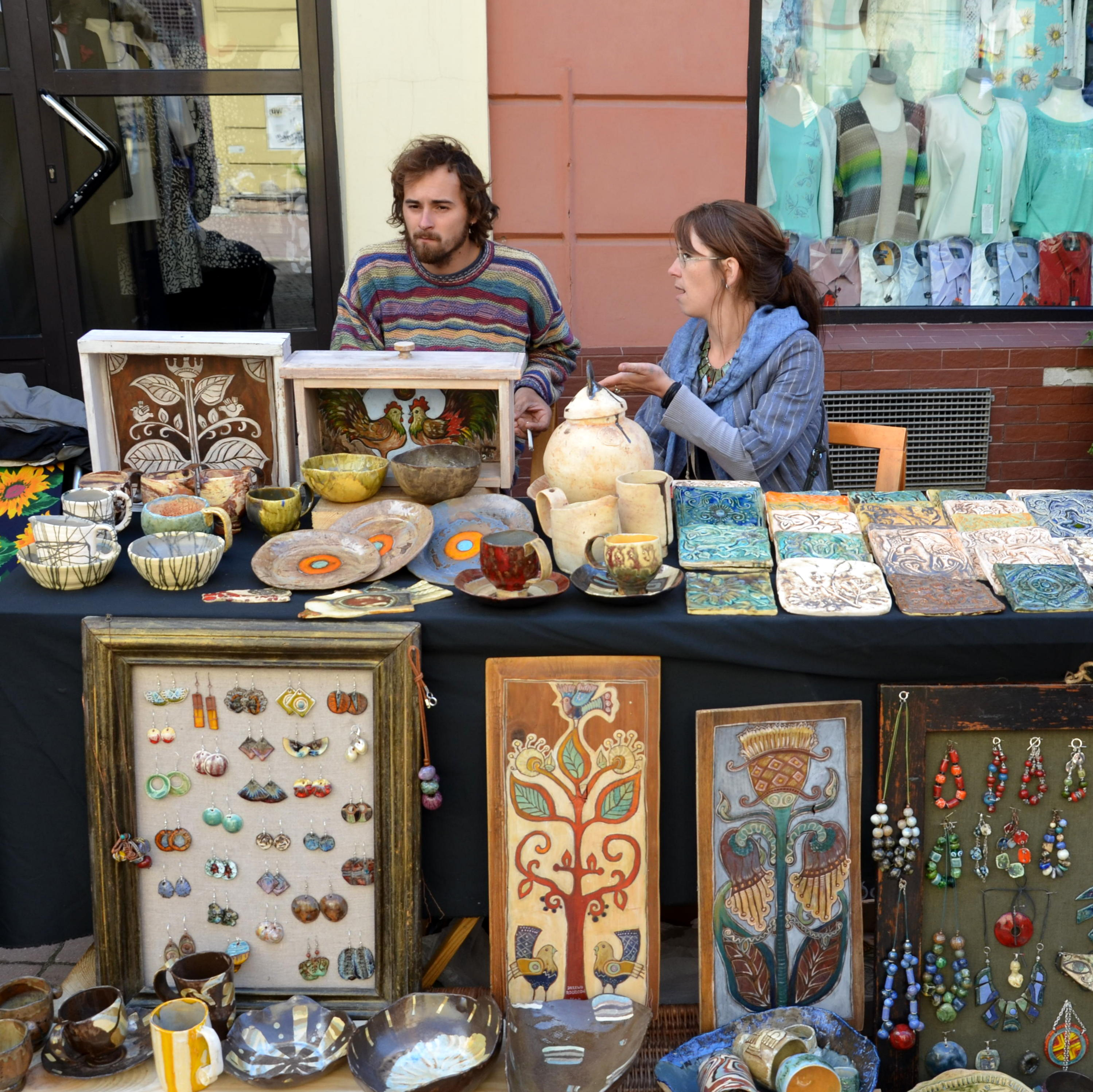 Jahrmarkt in Sanok